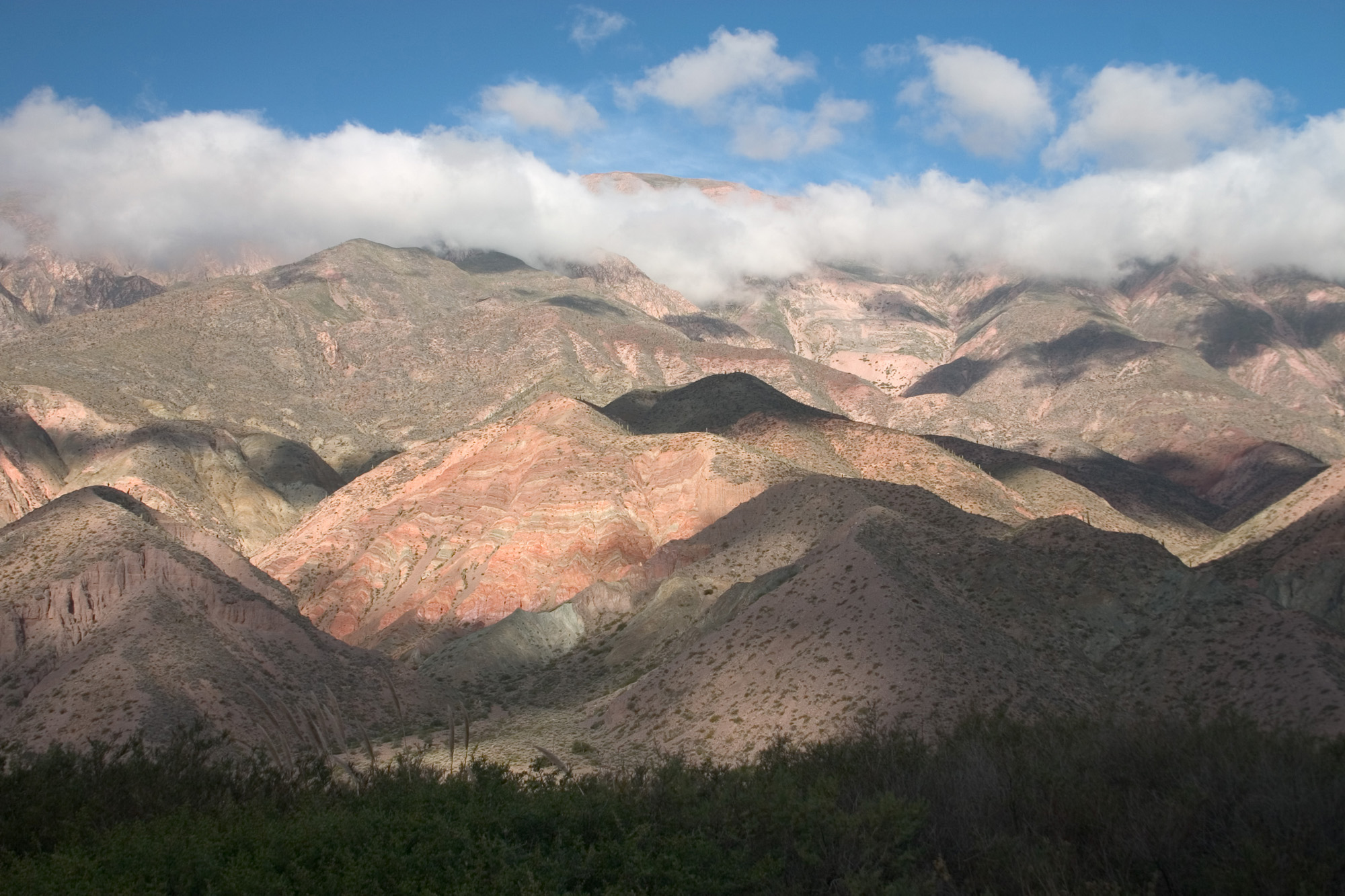 Quebrada de Humahuaca, Andes, Argentina.